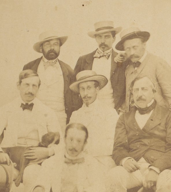 The Duke of Avaray, the Count of Bourbon-Busset, Ligier de Saint-Pierre, de Barberey, Prince Georges Stirbey (son of the Wallachian prince Barbu Ştirbei) and the Baron de Hauteclocque.